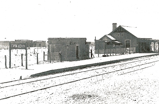 View of Cipolletti railway station in the 1930s.